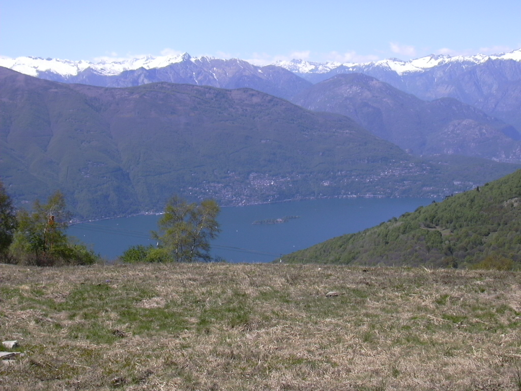 Brissago, photo taken from Passo Forcora